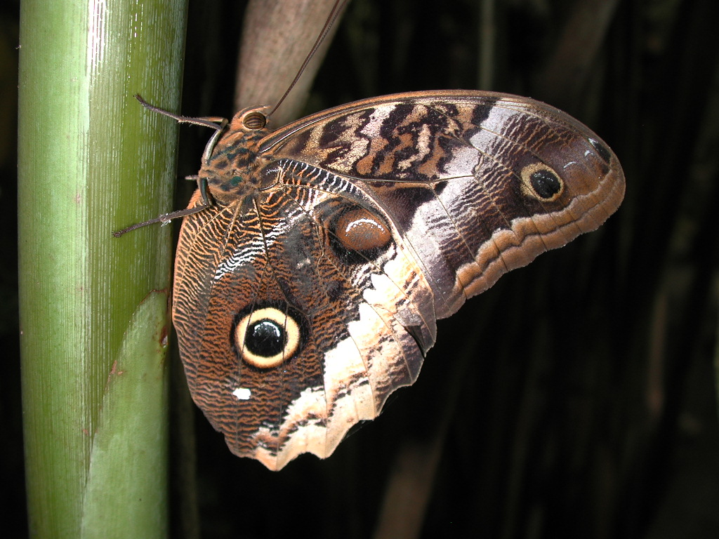 Owl butterfly (Caligo eurilochus) in Butterfly and Orchid Garden, Thames, New Zealand